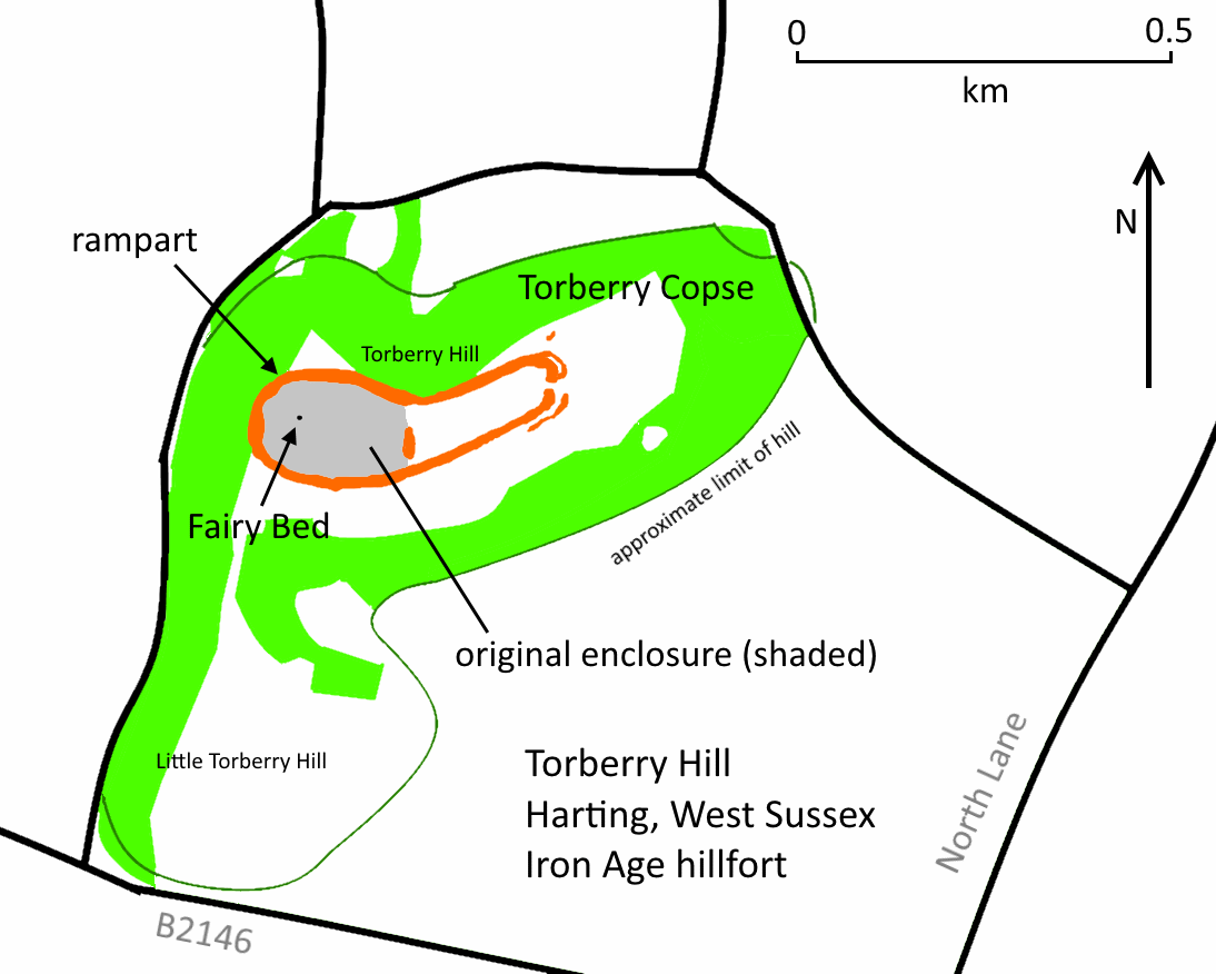 Map of Torberry Hill, near South Harting, West Sussex, England. Site of an Iron Age hillfort and a mill mound known as the Fairy Bed.